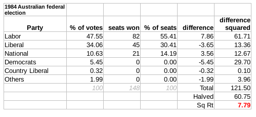 Gallagher Index, 1984 Australian Federal Election